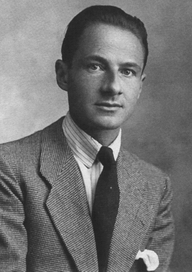 Guido Morselli (1912 - 1973), Italian writer